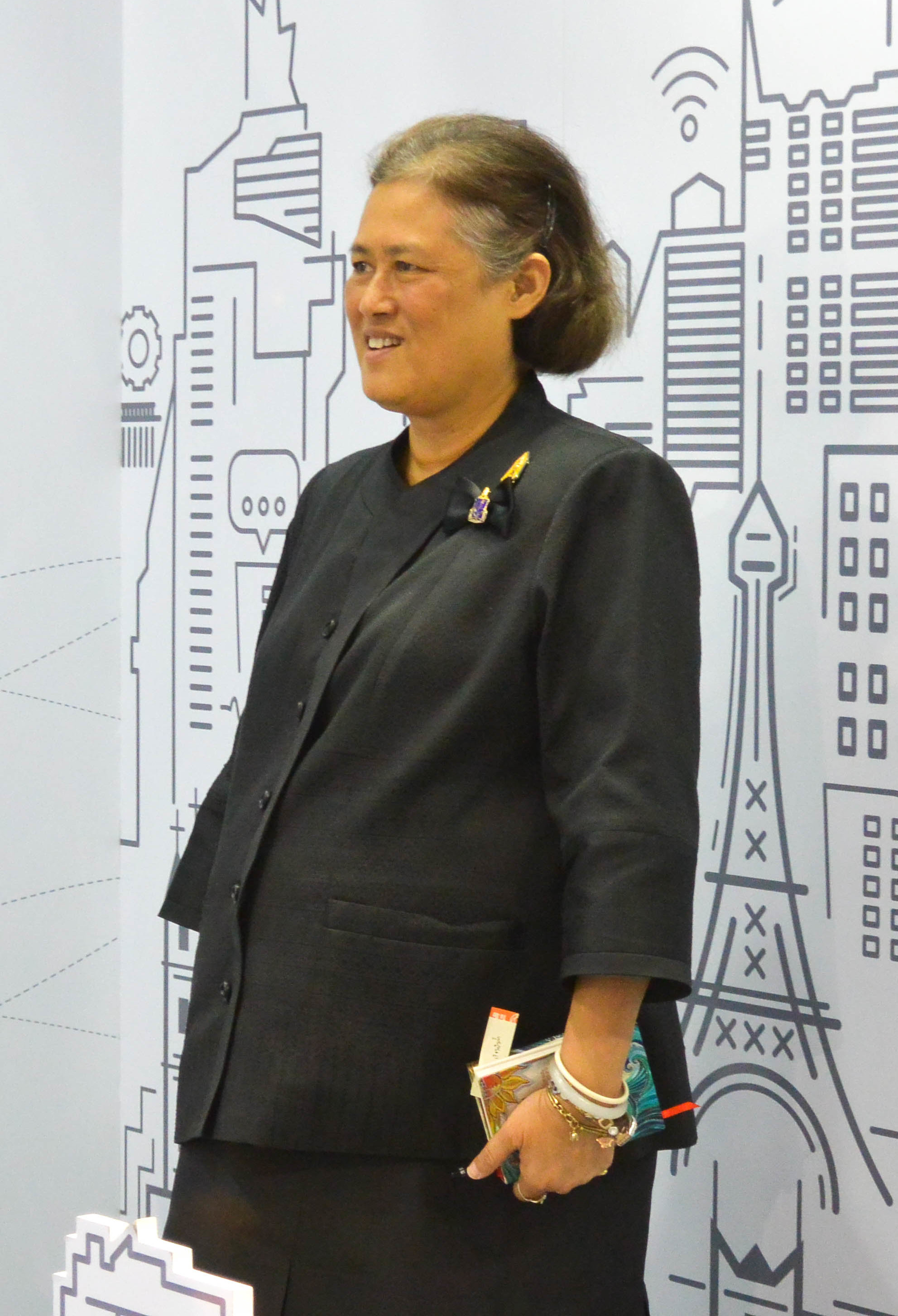 H.R.H. Princess Maha Chakri Sirindhorn, Princess, Government of the Kingdom of Thailand. © ITU/ M. Jacobson – Gonzalez